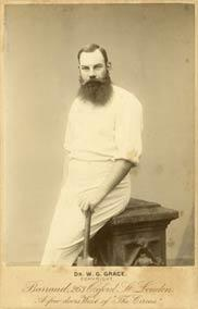 Dr WG Grace in 1885 aged 37 Loaded 23rd October 2006 From the Lordprice Collection